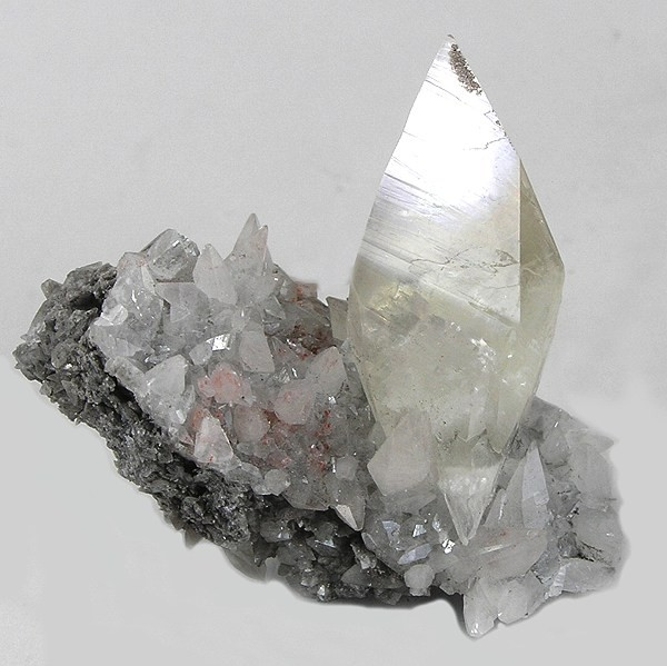 Calcite Locality: Jiepaiyu Mine (Shimen Mine), Shimen As-(Au) deposit, Shimen County, Changde Prefecture, Hunan Province, China (Locality at ) A strikingly fine, gemmy and sharp calcite crystal, with a light golden color that did not come out too well in the pics, perched dramatically on a small matrix covered with small, sparkly calcites. This is just a superb crystal - sharpness, glassy luster, etc. - and could not be more aesthetically presented, the way it sits on the matrix . . . 6.1 x 5.4 x 3.2 cm